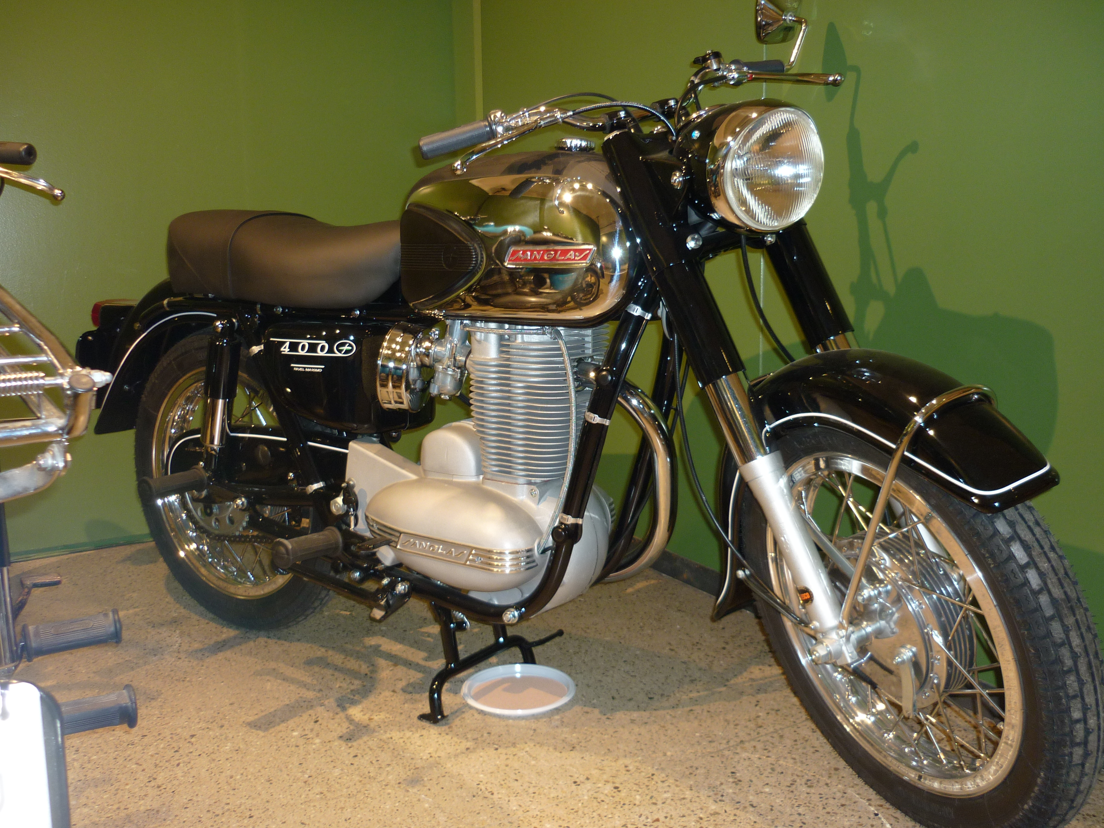 Sanglas 400 (1972).Museu Industrial del Ter, Manlleu, Catalonia (9 to 21 november 2010)